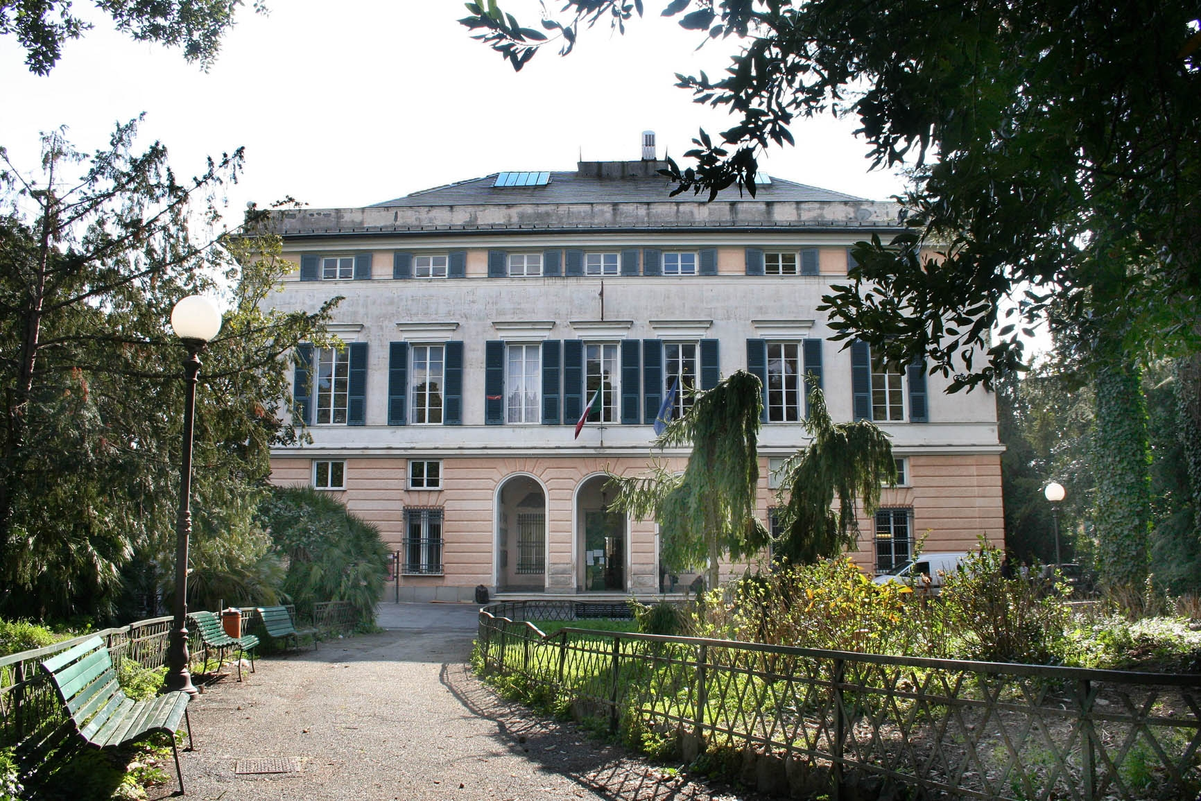 Genoa (Italy), quarter of Albaro, Villa Bombrini, conservatoire Paganini